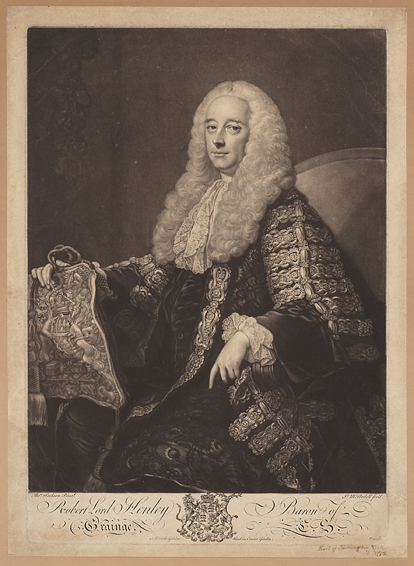 Portrait of Robert Henley, 1st Earl of Northington (c.1708-1772)